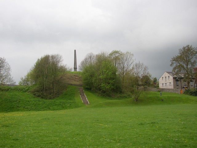 Castle Howe, Kendal. Castle Howe is a motte and bailey castle, probably pre-dating the stone castle on the other side of the valley. The obelisk on the top of the motte was erected in 1788 and dedicated to liberty, commemorating the 'Glorious Revolution' of 1688 when James II went into exile and William of Orange was invited to become king by Parliament.